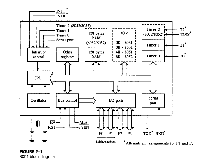 Arkitektura mikro kontrollerit Intel 8051